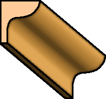 Ogee molding